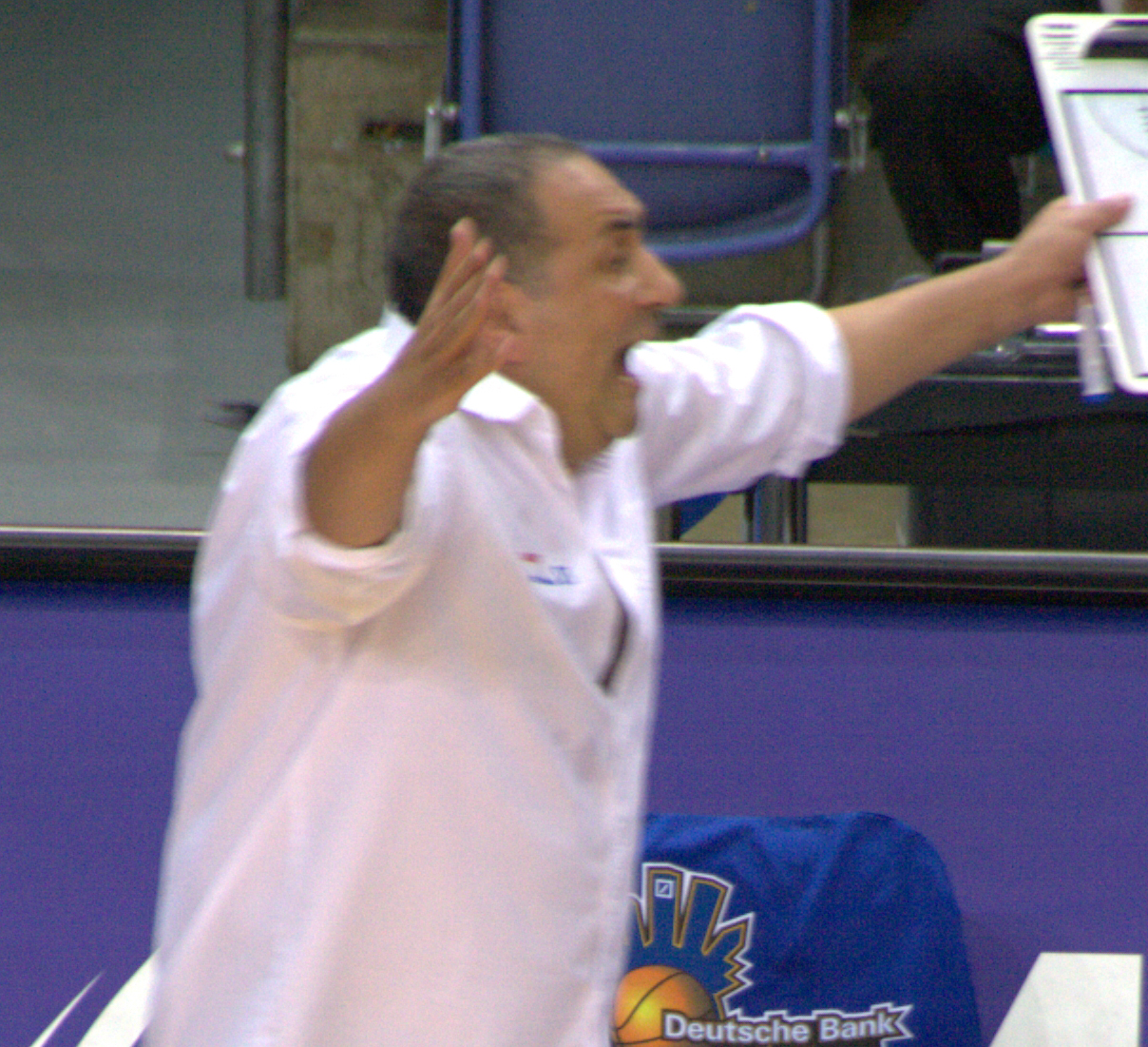 Frankfurt Skyliners' coach Murat Didin during a game against ALBA Berlin.